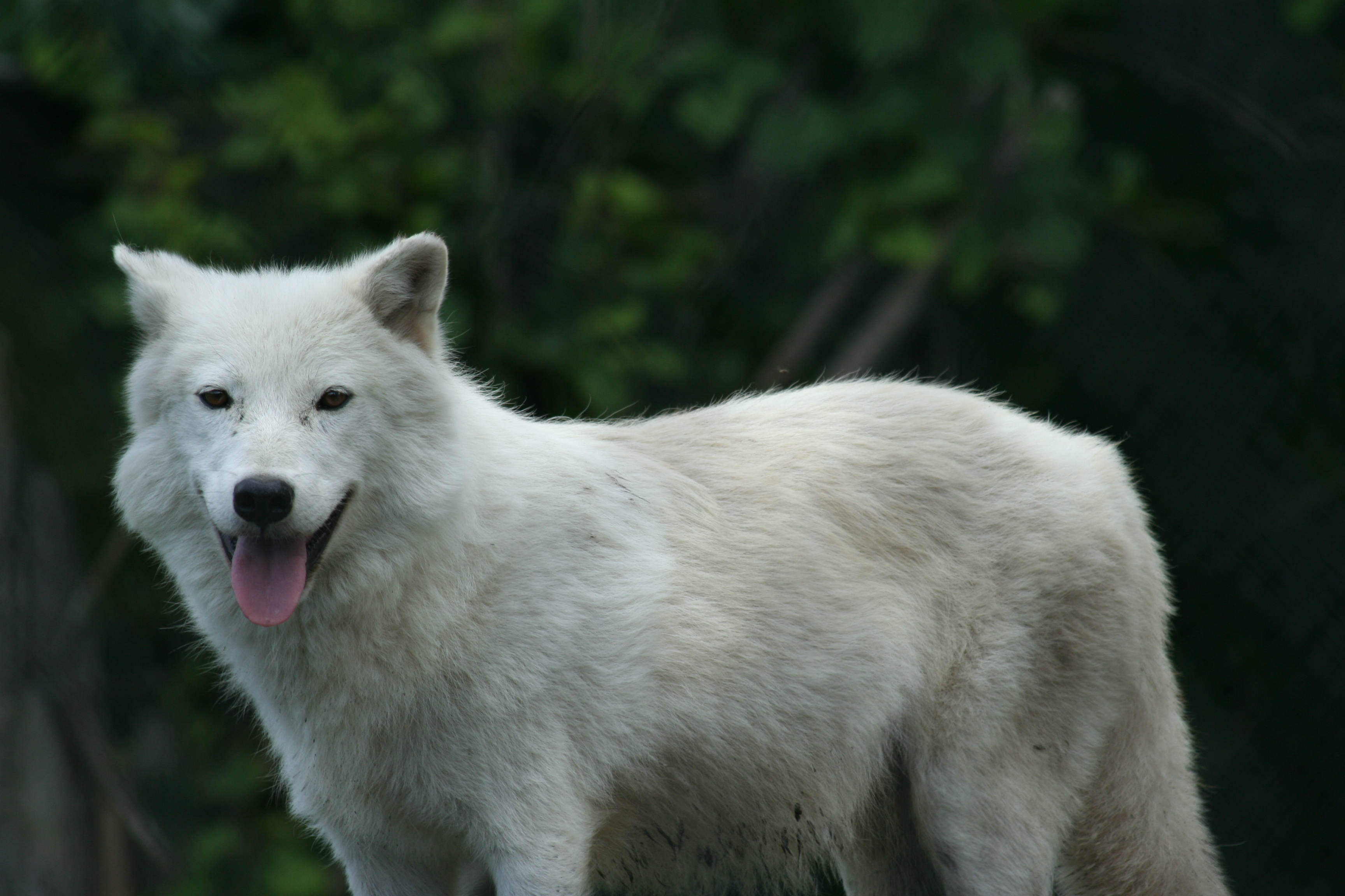 All the rest of my wolf pictures really look like wolves. Meanwhile this one almost looks like some sort of samoyed-cross, complete with the sammy smile. Not a bad impression, but still all wolf. Taken at the Papanack Zoo with a Canon EOS 350D & 70-300mm f4-5.6 IS USM lens.